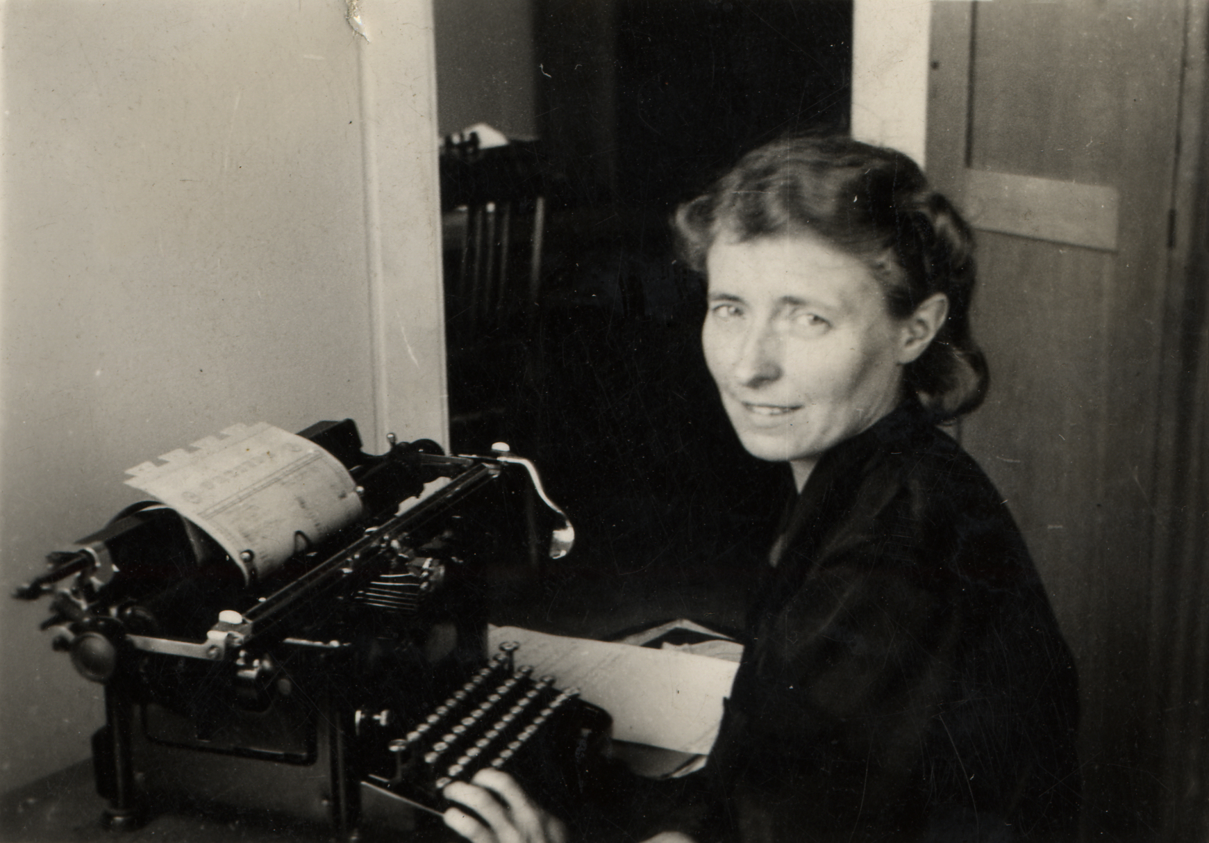 Irena Stefania Latinik-Vetulani, Ph.D. (26 December 1904 – 2 February 1975), Polish biologist.